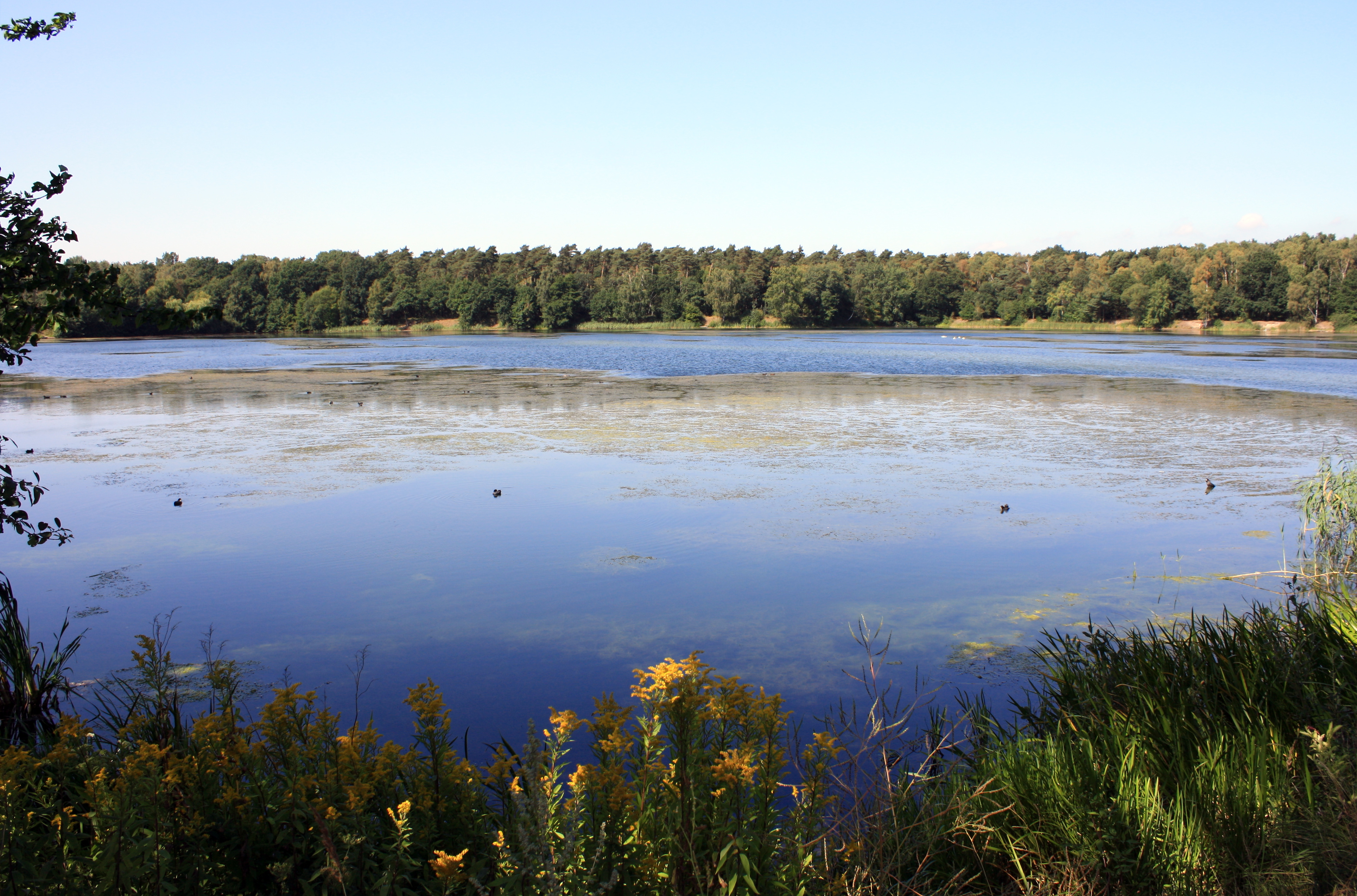 The "Blaue See" ("Blue Lake") near Ahlten/Lehrte